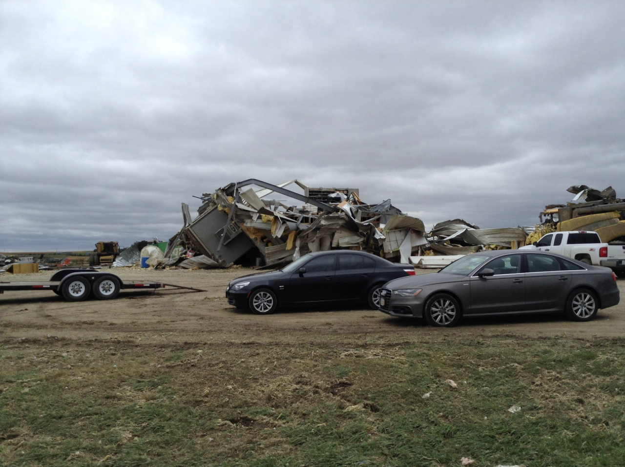 EF4-rated damage to an industrial factory in Wayne, Nebraska from a tornado on October 4, 2013